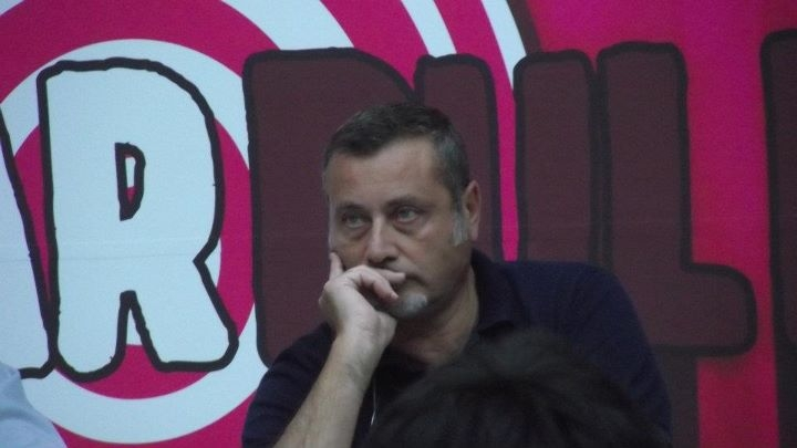 Author Massimo Carlotto at the Sugarpulp Festival (Padova, Italy); 2 October 2011.